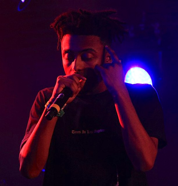 Aminé at SXSW